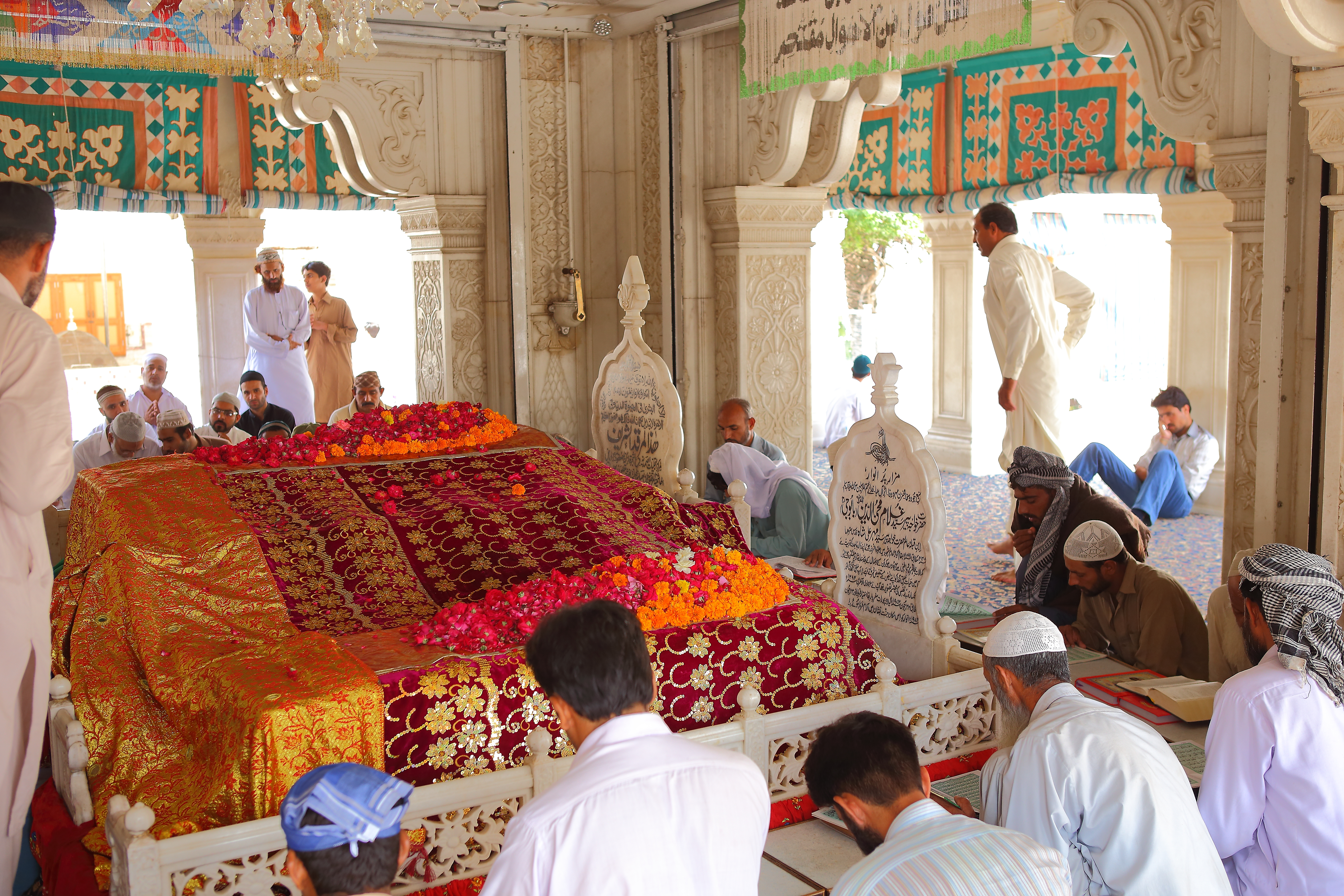 Mausoleum of Meher Ali Shah This is a photo of a monument in Pakistan identified as the ICT-1